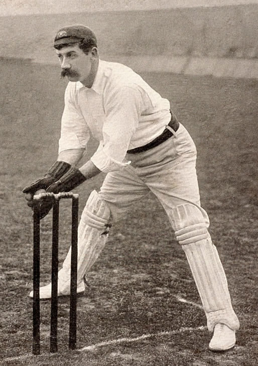 James Kelly, the wicketkeeper for Australia on their tour of England in the summer of 1902.